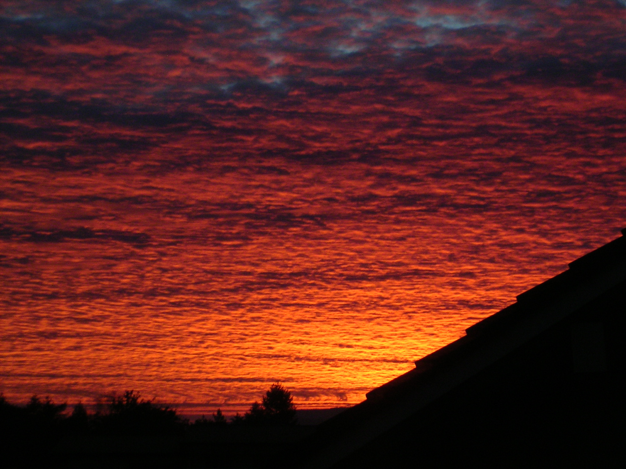 Very red clouds at sunriseEesti: Väga punased pilved päikesetõusu ajal